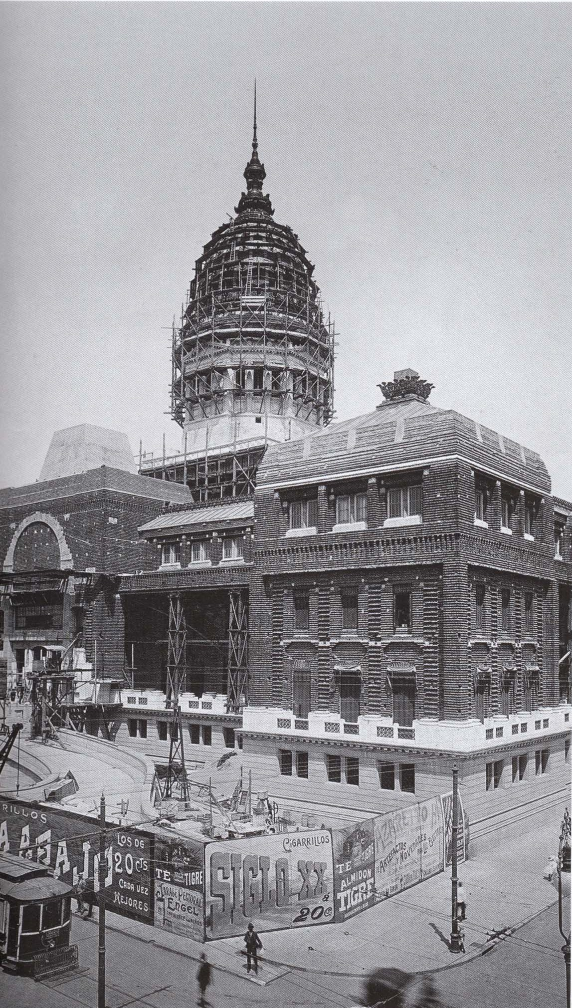 The Congressional Palace of Argentina while being constructed.